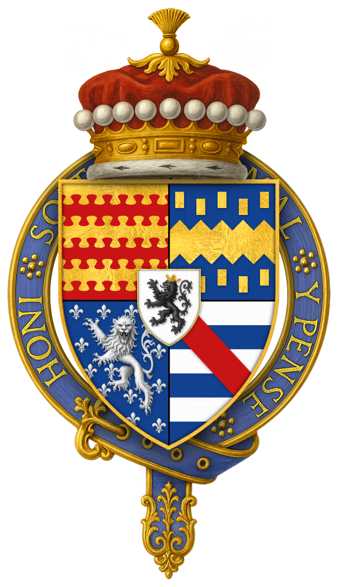 Stained glass at Carlton Towers, Yorkshire, a possession of the Stapleton family, showing arms of Stapleton, Lovell, Grey of Rotherfield, Deincourt, Holand? and Beaumont. Joan Lovell, a sister and co-heiress of Francis Lovell, 1st Viscount Lovell, married Brian Stapleton of Carlton Sir Francis Lovell, 1st Viscount Lovell, KG Lovell's stall plate is still intact within the eighteenth stall on the Prince's side of St. George's chapel. It is an irregular shaped copper plate bearing, within the Garter of the Order, a shield quarterly: 1, barry nebuly or and gules (for Lovell) ; 2, azure billety and a fess dancety or (for Deincourt); 3, azure fleury and a lion rampant regaurdant argent (for Holand) ; 4, Barry of six argent and azure a bend gules (for Grey of Rotherfield); with an escutcheon of pretence argent a lion rampant sable crowned or (for Burnell). Note that Lovell's stall plate was one of the first to include the Garter of the Order. This is a tradition that would gain prevalence in the time of Henry VIII.